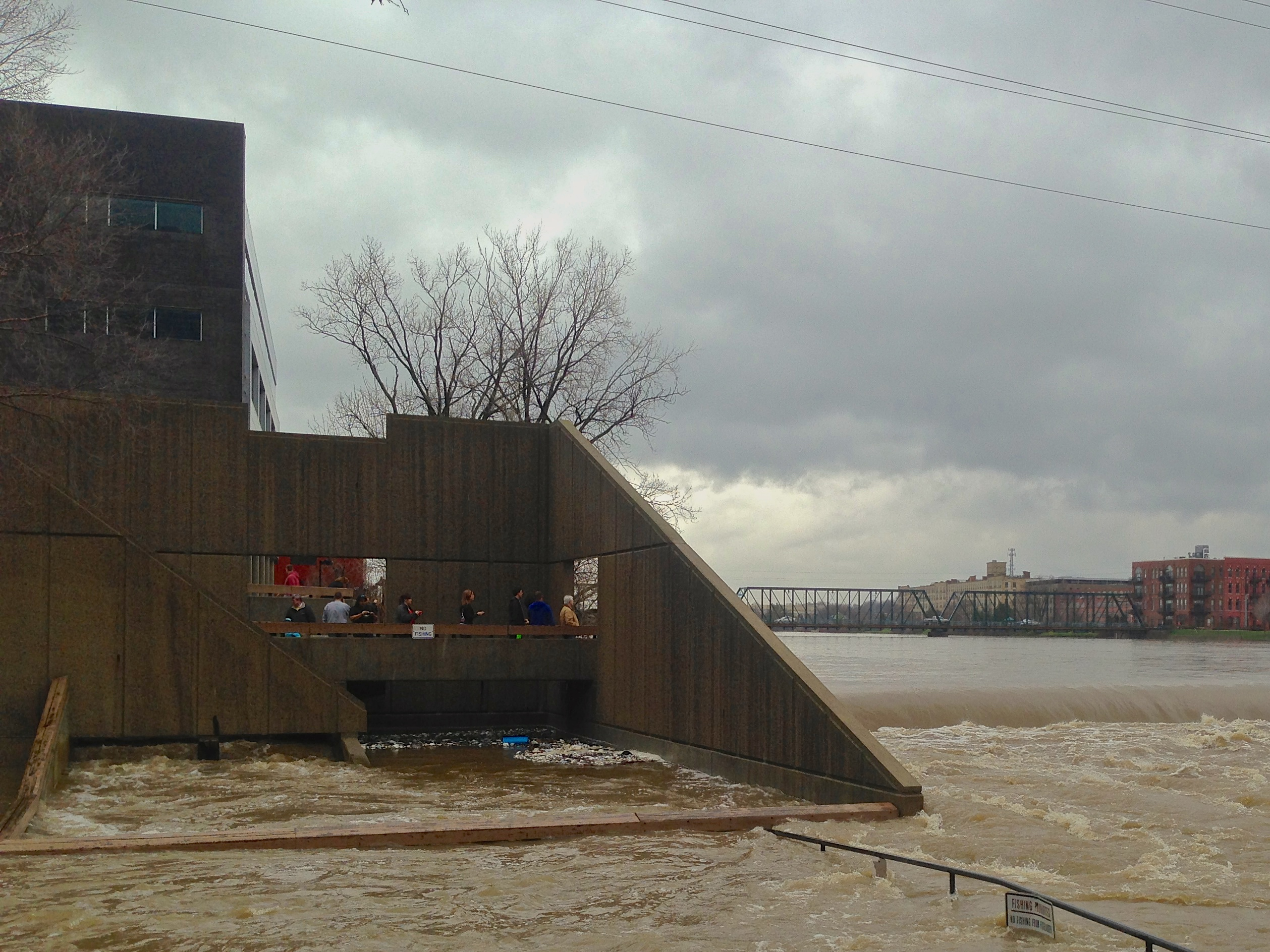 Grand Rapids Fish Ladder during the 2013 flood.